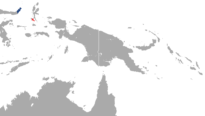 Celebes Crested Macaque (Macaca nigra) range (blue — native, red — introduced). Includes the Indonesia-New Guinea border.